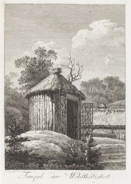 temple of charity, Seifersdorf Valley, Saxony